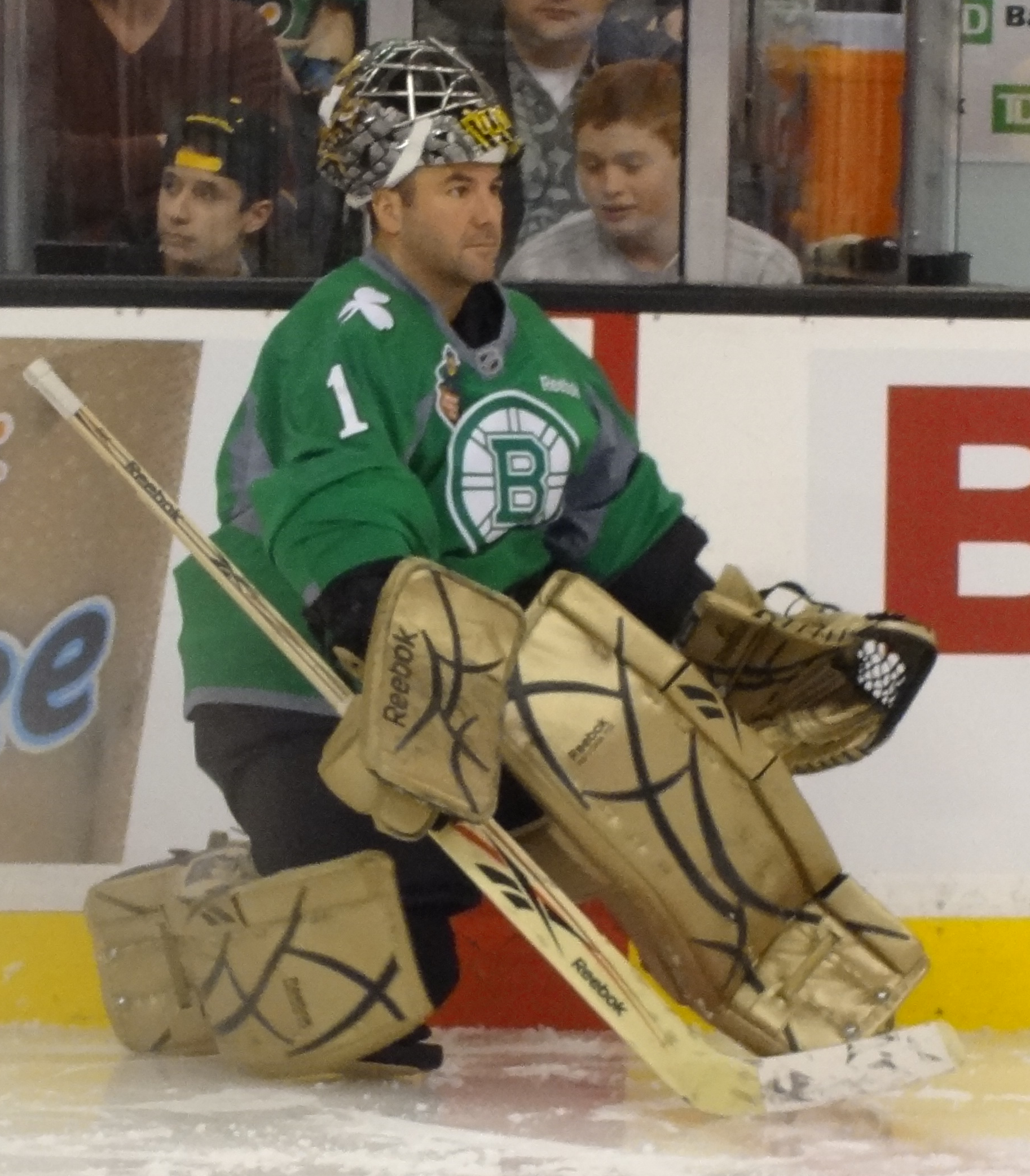 Marty Turco wearing a green Boston Bruins practice jersey during pre-game warm-ups at the TD Garden, Boston, MA prior to the Bruins vs Flyers game.